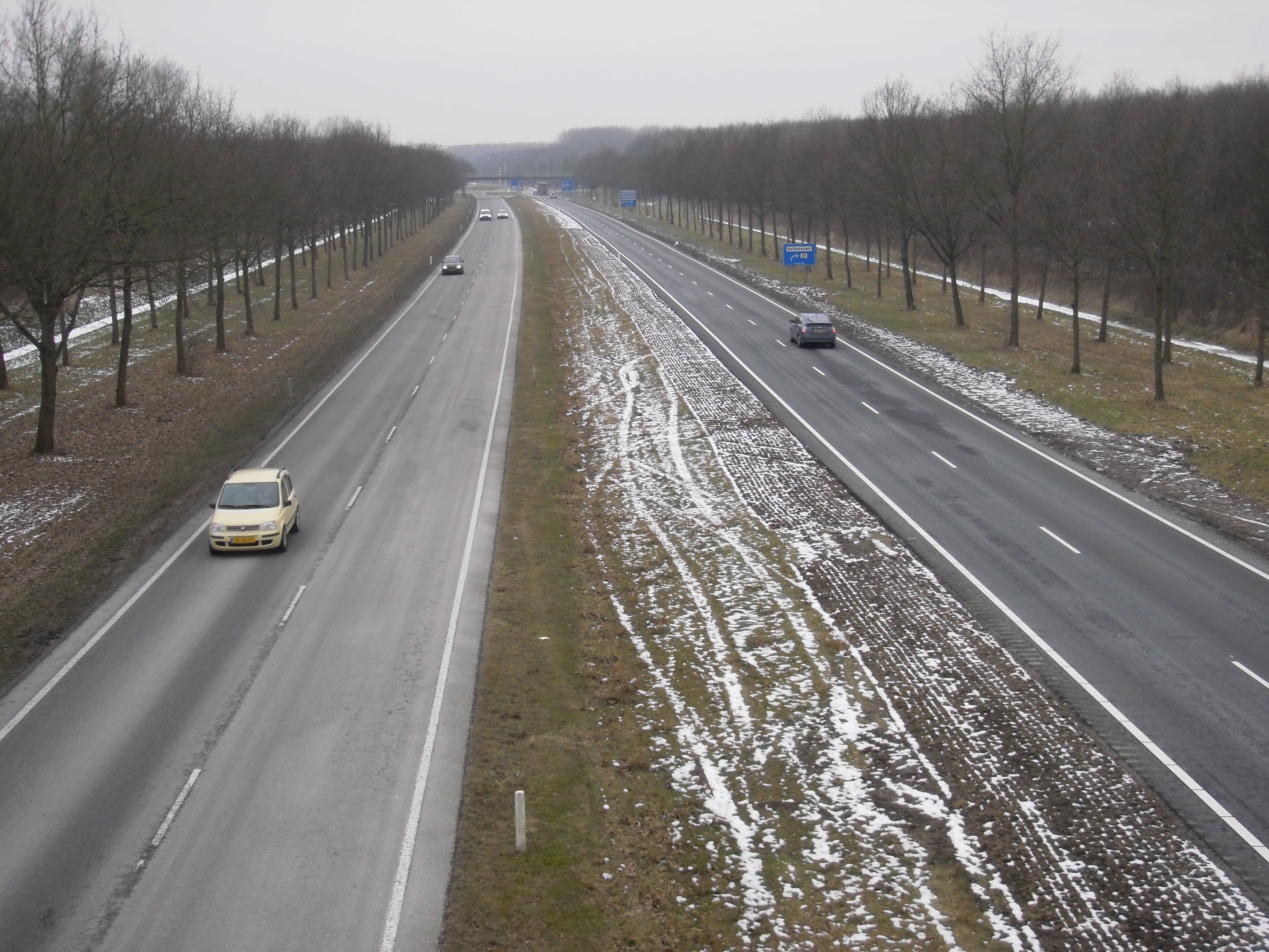 Road N702 in Almere, The Netherlands.